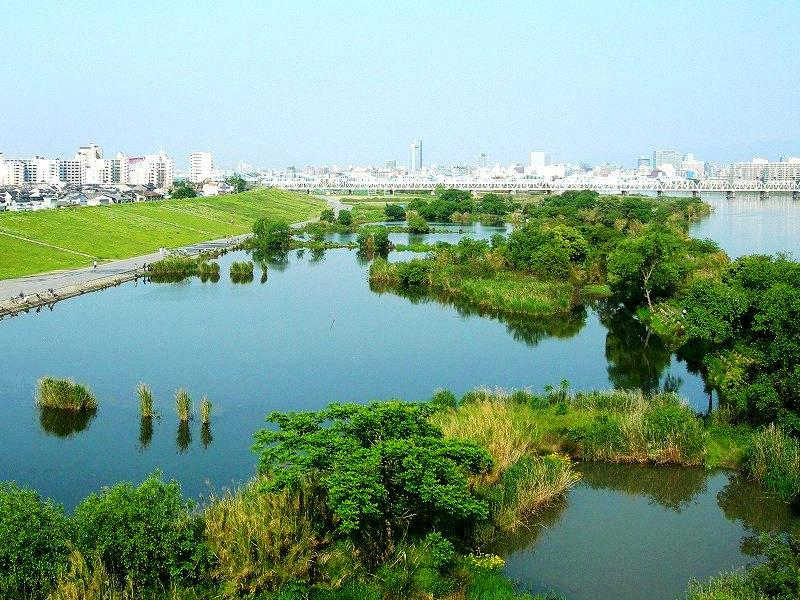 Yodo-gawa river,Osaka,Japan.It is a landform called "wan-do" that is like a pond in the bank of river.